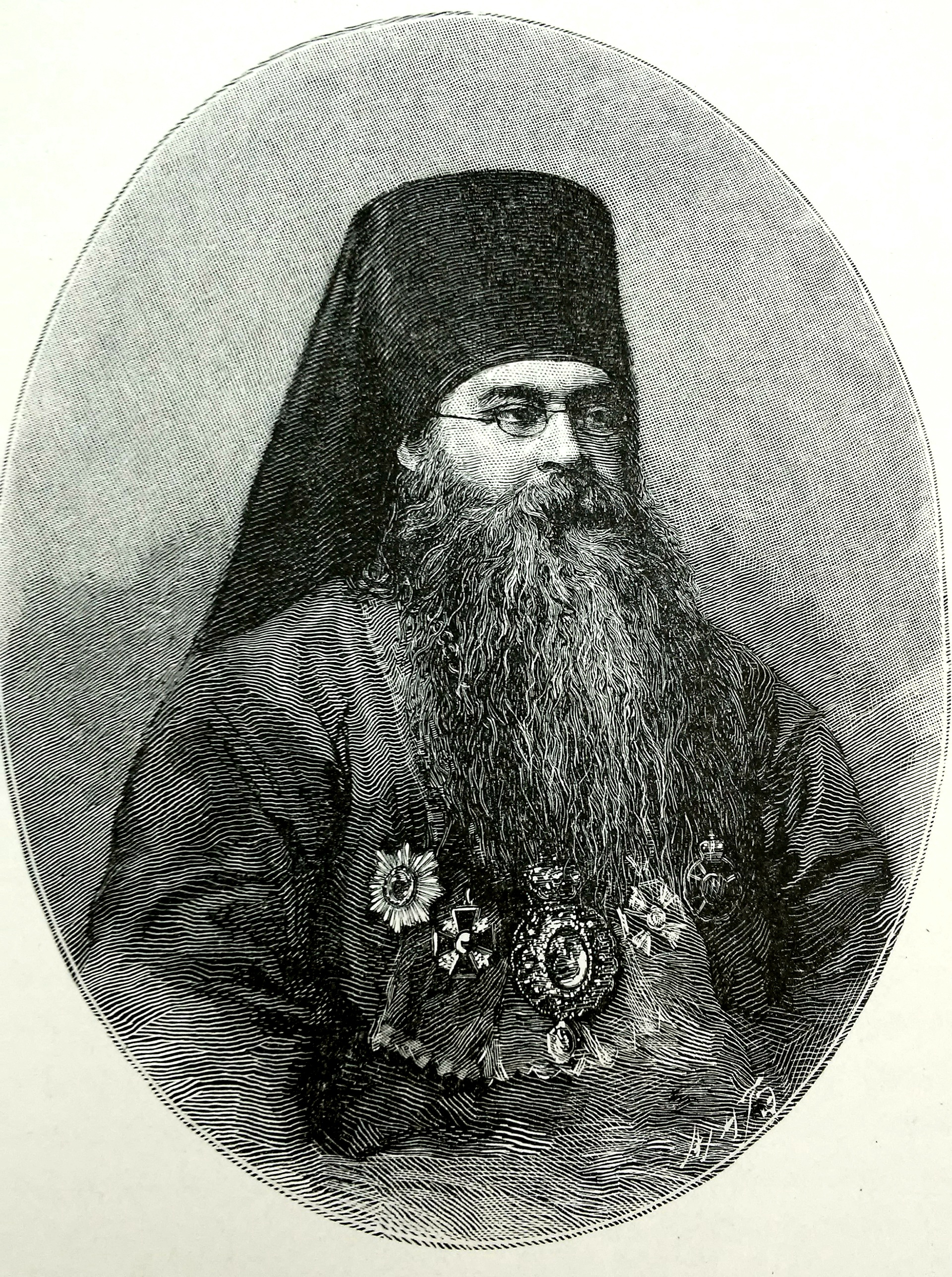 Flavian (Gorodetsky) as the bishop of Kholm and Warsaw